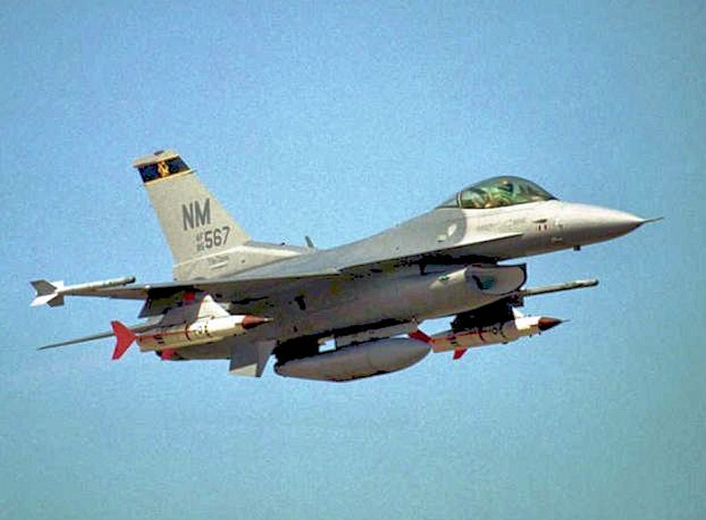 USAF F-16C block 30 #85-1567 is carrying two AQM-37c air to ship missiles while testing (150th DSE) with the U.S. Navy. [USAF photo]